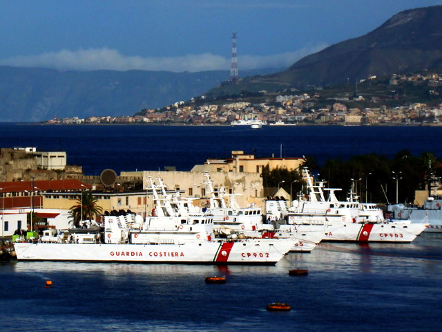 Patrol Boat of Italian Coasr Guard "Diciotti" Class (cropped image of Guardia-Costiera---Sicilia.jpg)